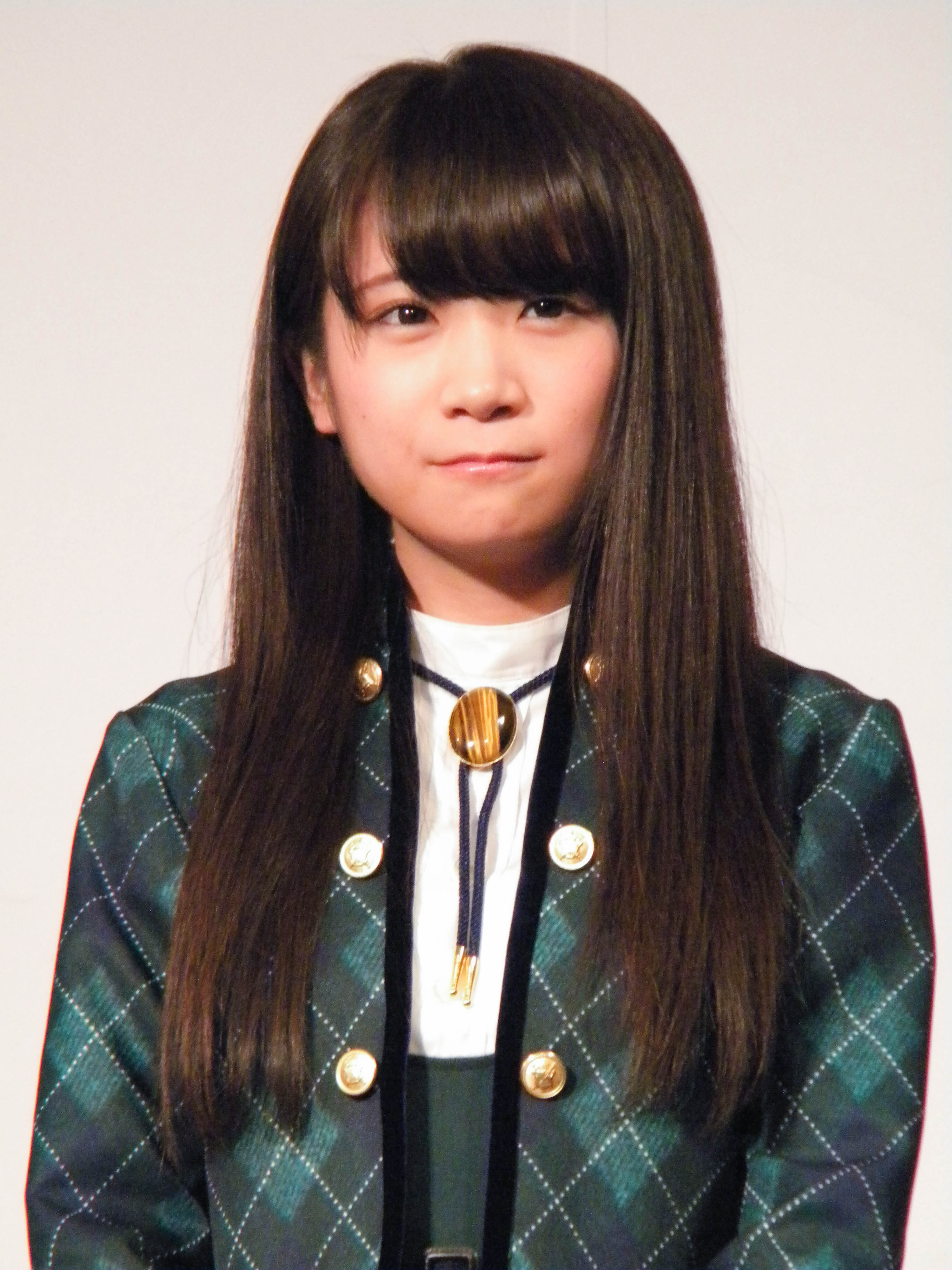 Manatsu Akimoto (Nogizaka46) on HTC and Chunghwa Telecom HTC Butterfly 2 joint marketing event at Taipei, Taiwan.